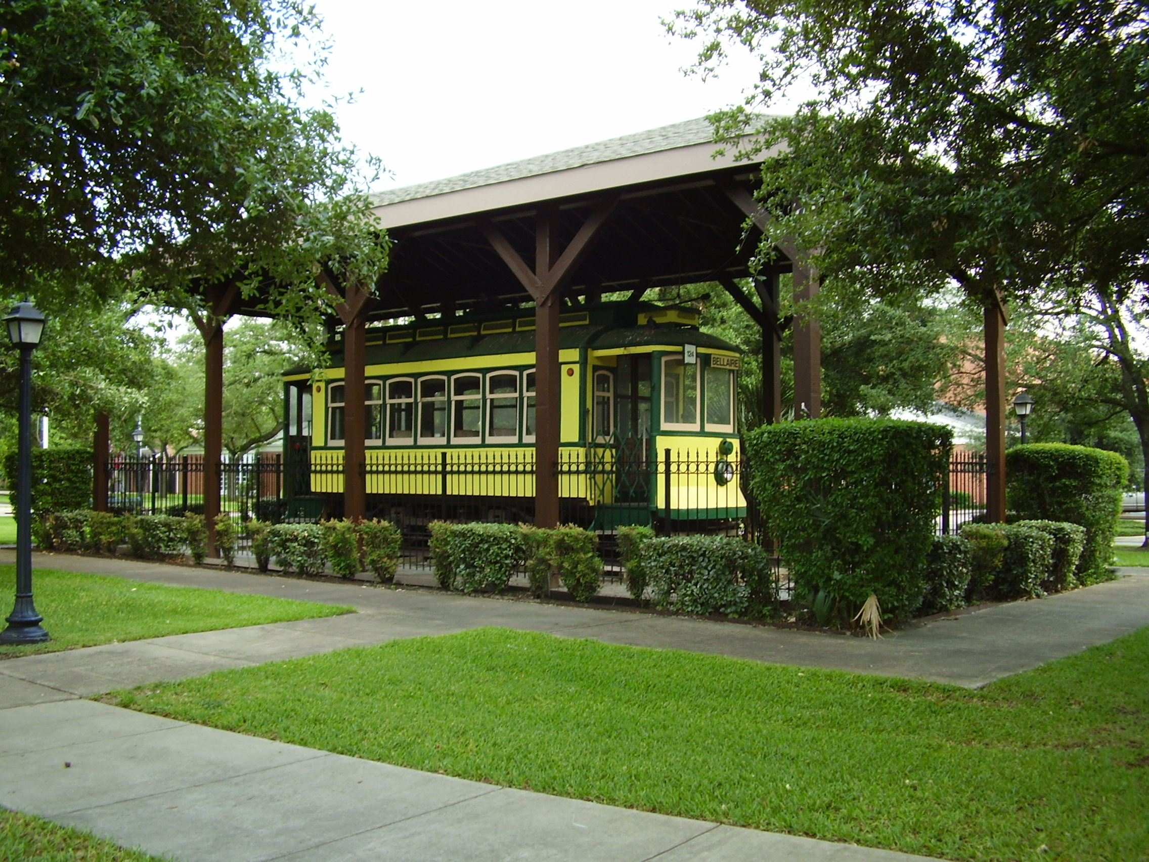 The historic Bellaire streetcar at Paseo Park. Now numbered 124, it is former Porto, Portugal car 173, built in Porto in 1929 but based on streetcars the Porto streetcar system had previously purchased from Philadelphia-based J.G. Brill Company in the early 20th century – and similar to streetcars that operated in Bellaire. It was imported from Portugal in 1985 by Oregon-based streetcar importer Gales Creek Enterprises, restored and placed on display in Bellaire in autumn 1985. It was renumbered 124, in honor of a streetcar that had run on the former Bellaire system.